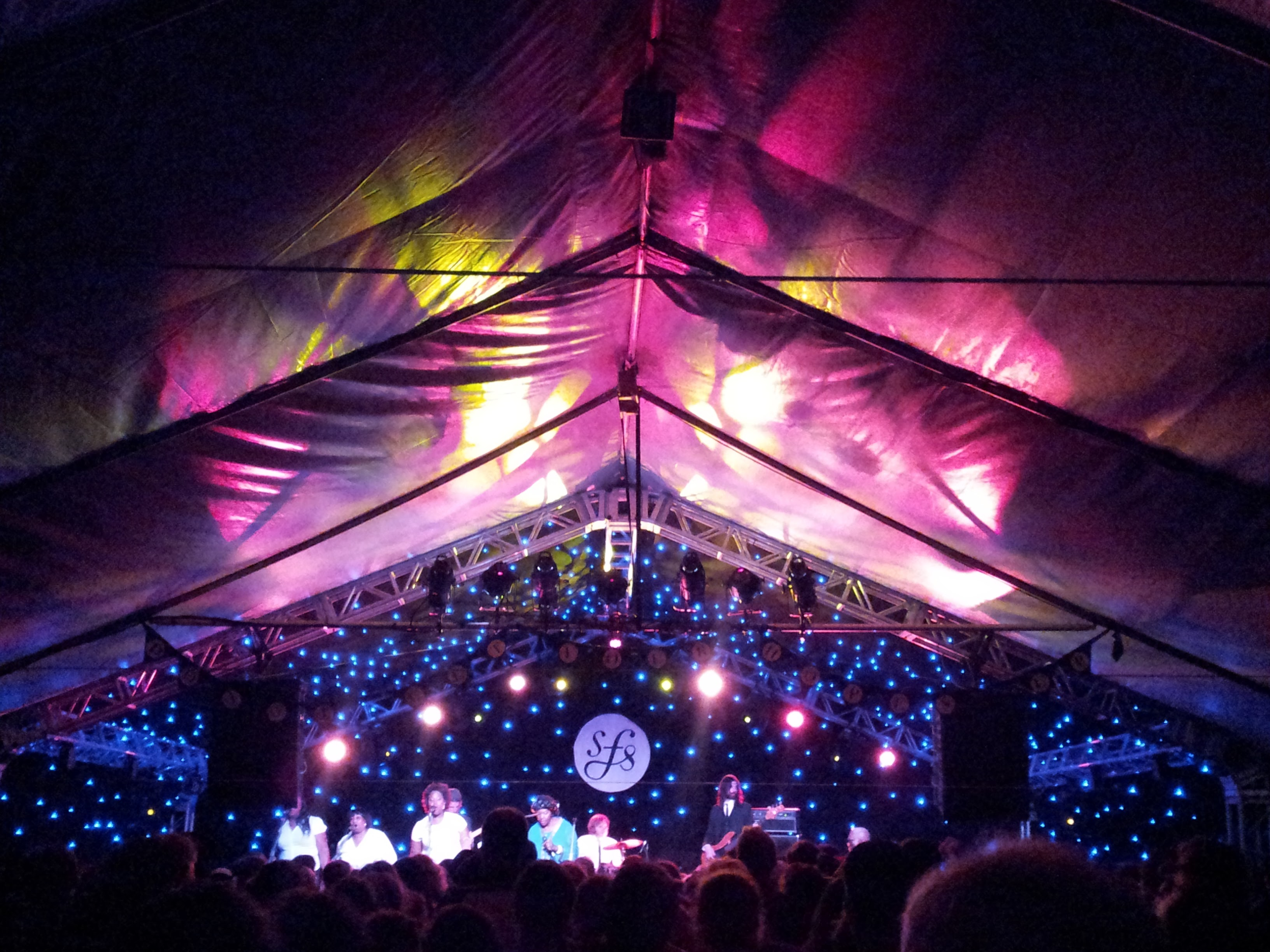 Naomi Shelton and The Gospel Queens at SappyFest on August 4, 2013.